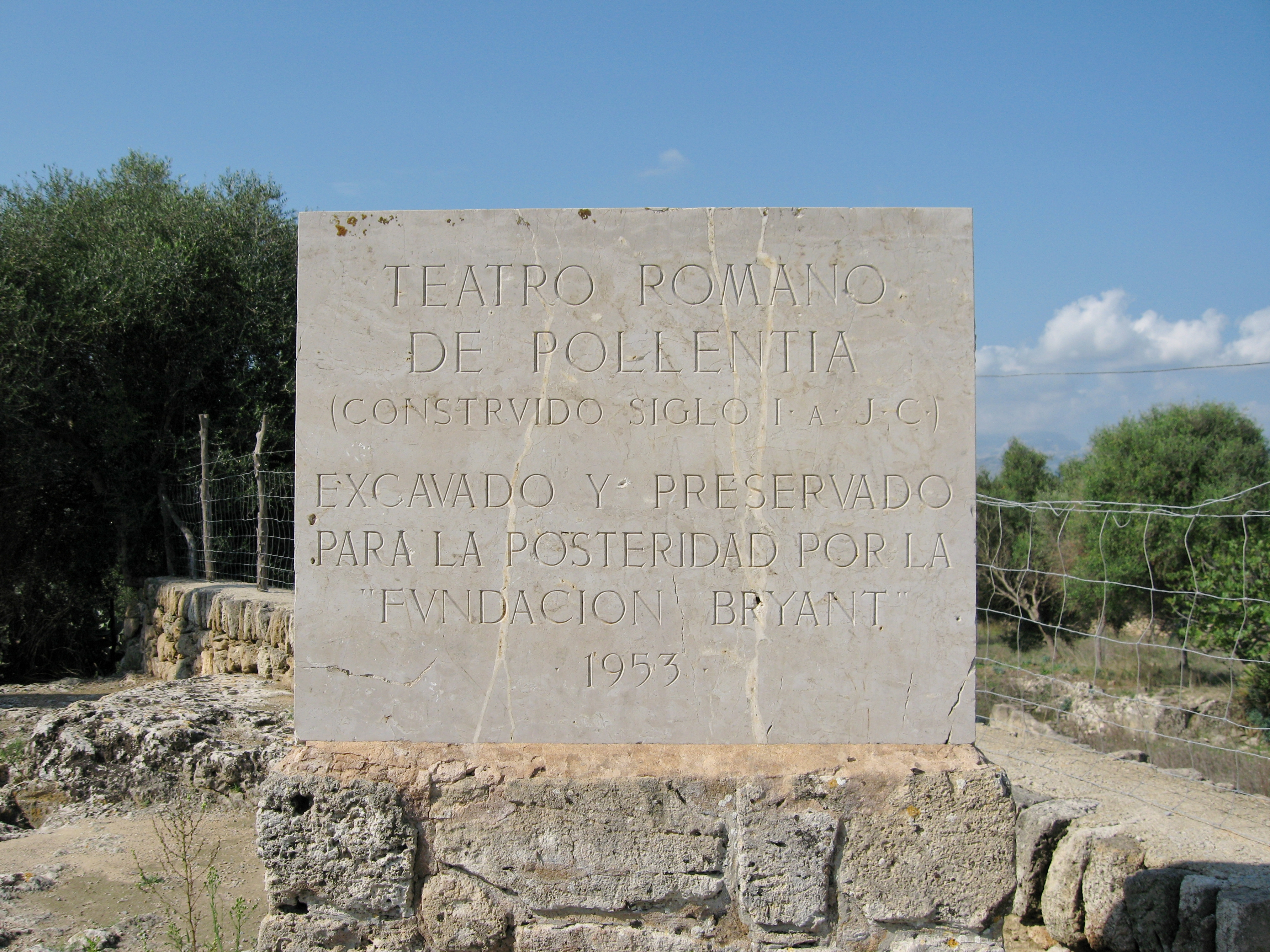 The ruins of the Ancient Roman theatre in Pollentia (Pol·lèntia), Alcúdia, Mallorca, Spain.